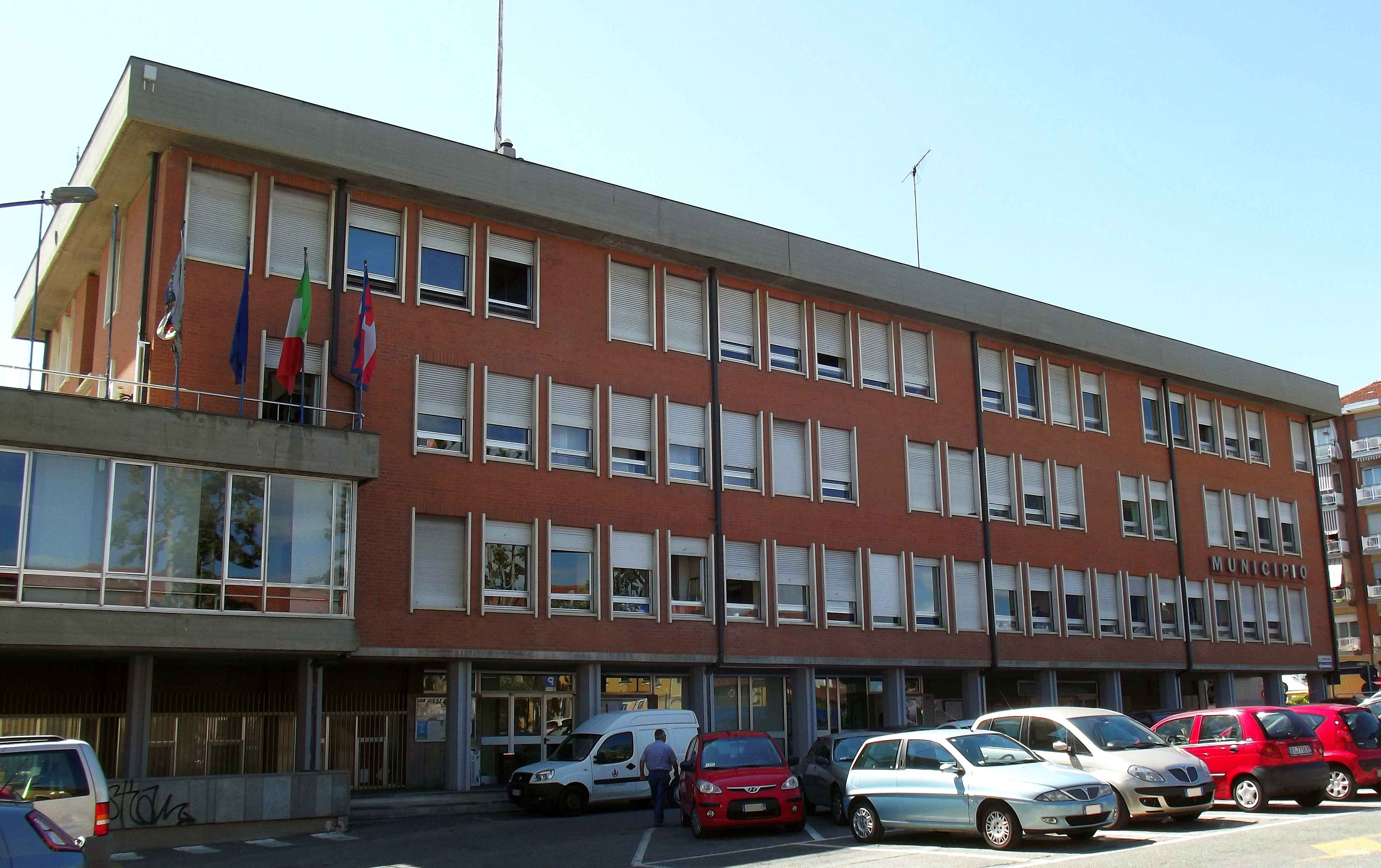 Grugliasco (TO, Italy): town hall